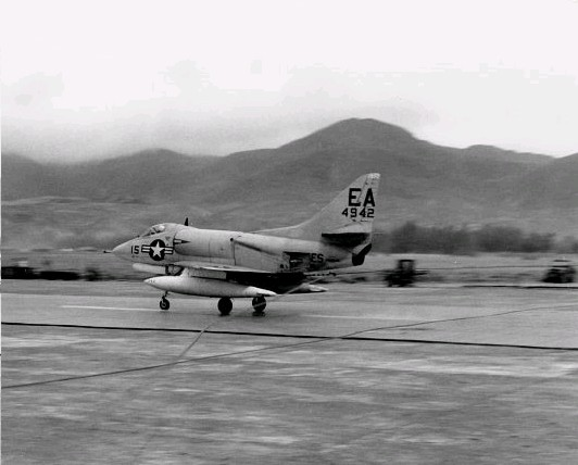 A Douglas A4D-2 Skyhawk (BuNo 144942) from U.S. Marine Corps attack squadron VMA-332 makes a MOREST landing during operation "Blue Star" in 1960.